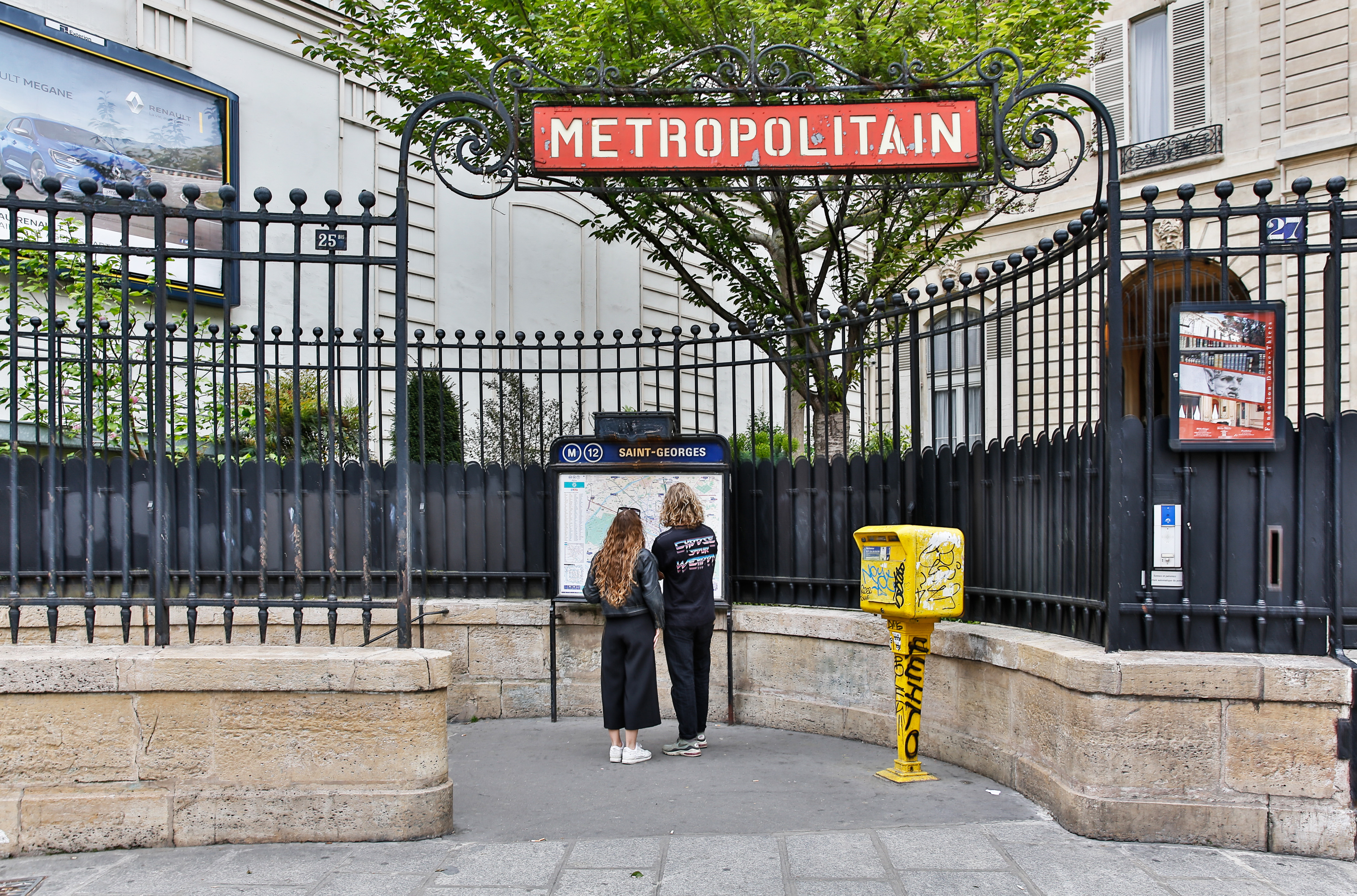 Saint-Georges station entrance, Paris.